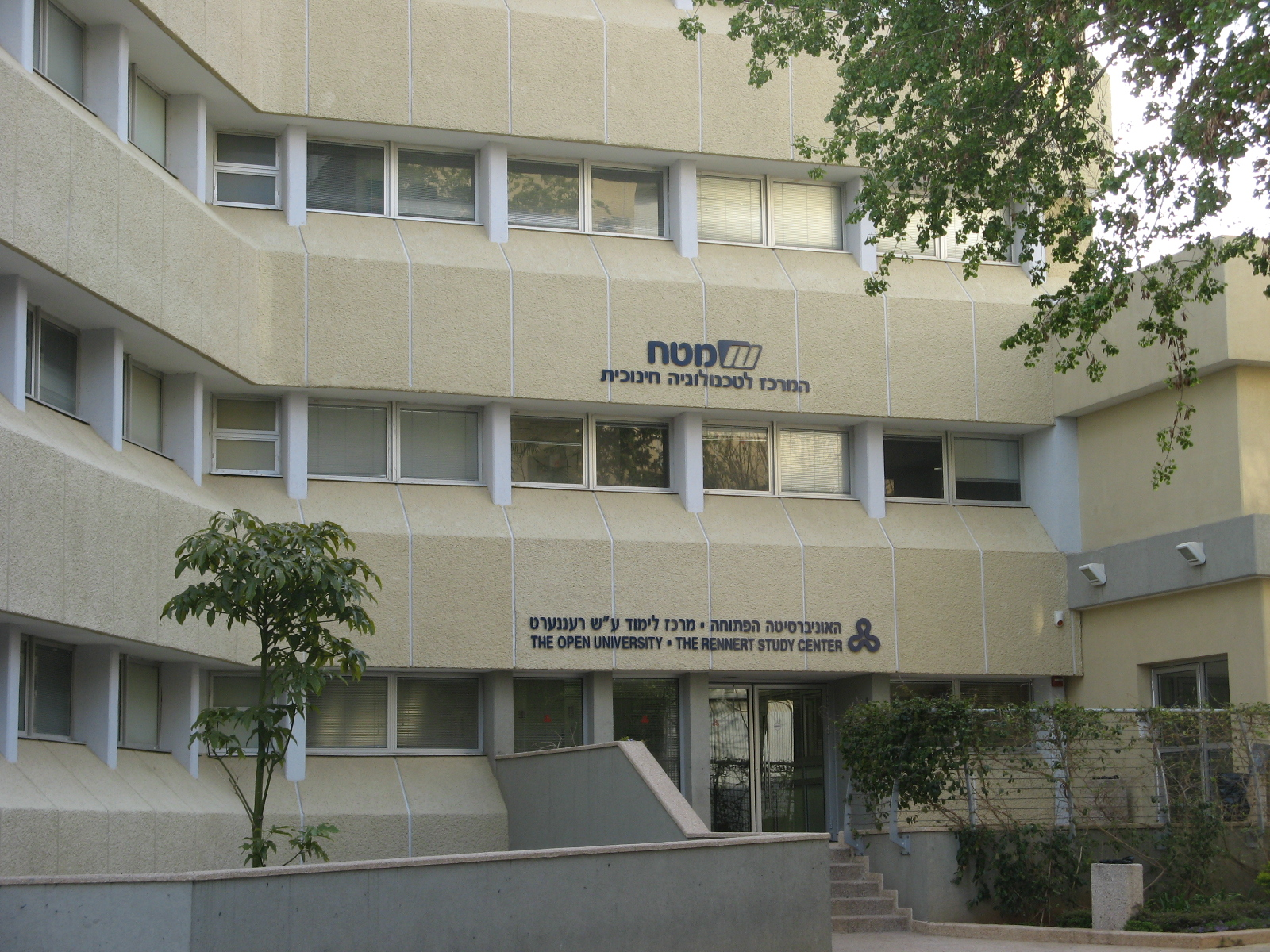 בנין האוניברסיטה הפתוחה ברחוב קלאוזנר